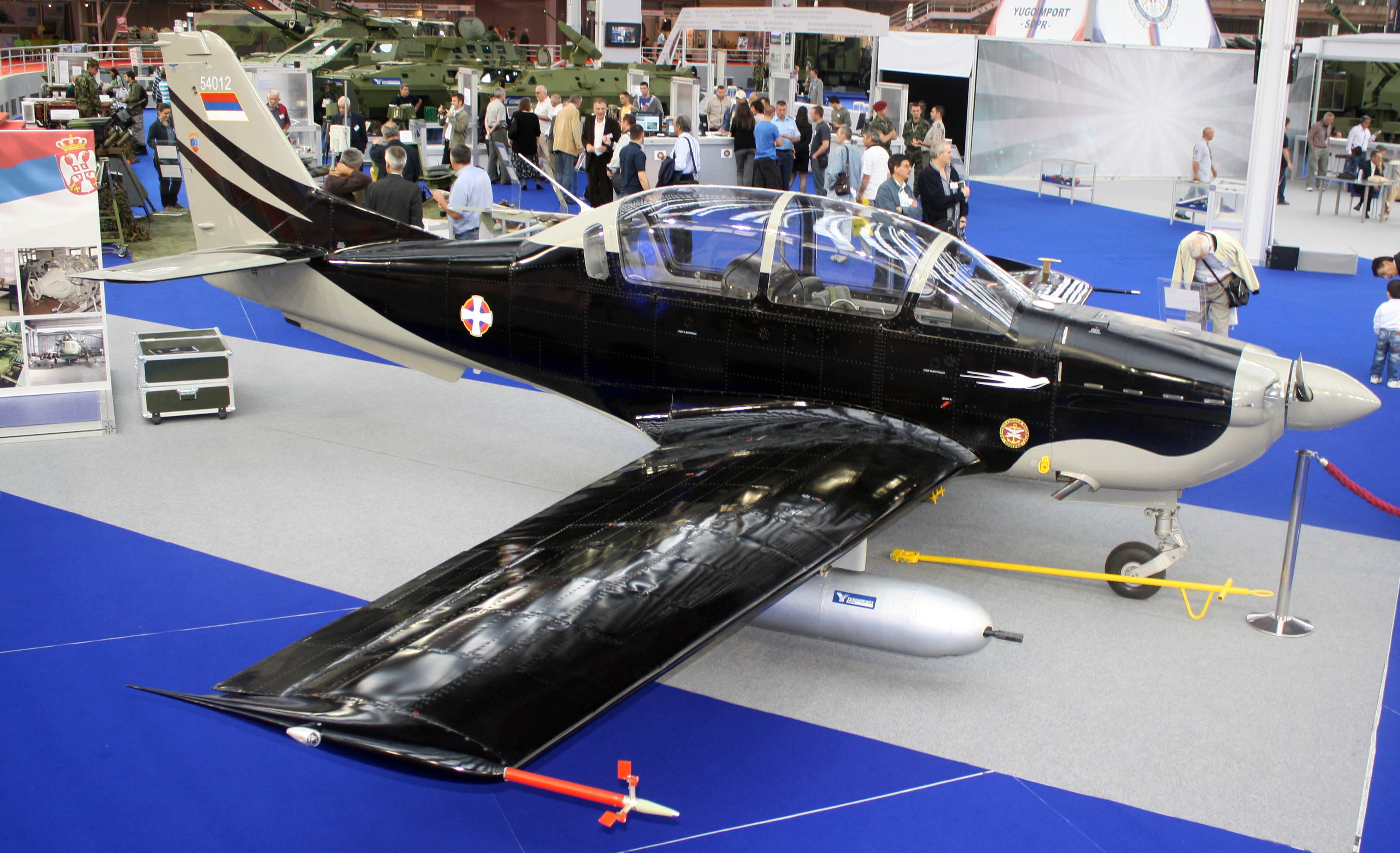 Lasta 95 P2 (second prototype) lightly armed basic trainer aircraft made by Utva aviation industries from Pančevo on display at "Partner 2011" military fair.